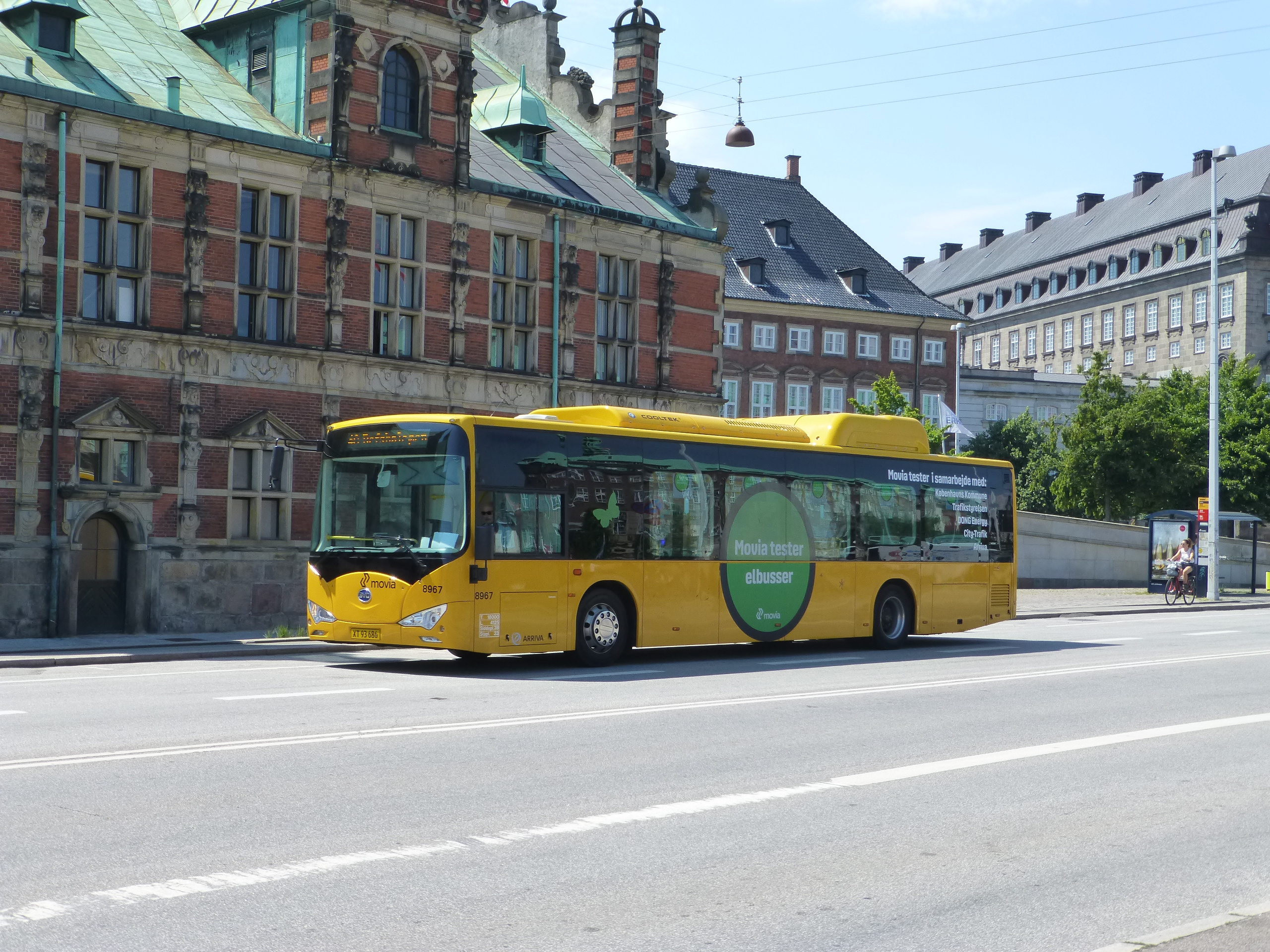 Test with electric buses on Movia bus line 40 on Børsgade in Copenhagen.